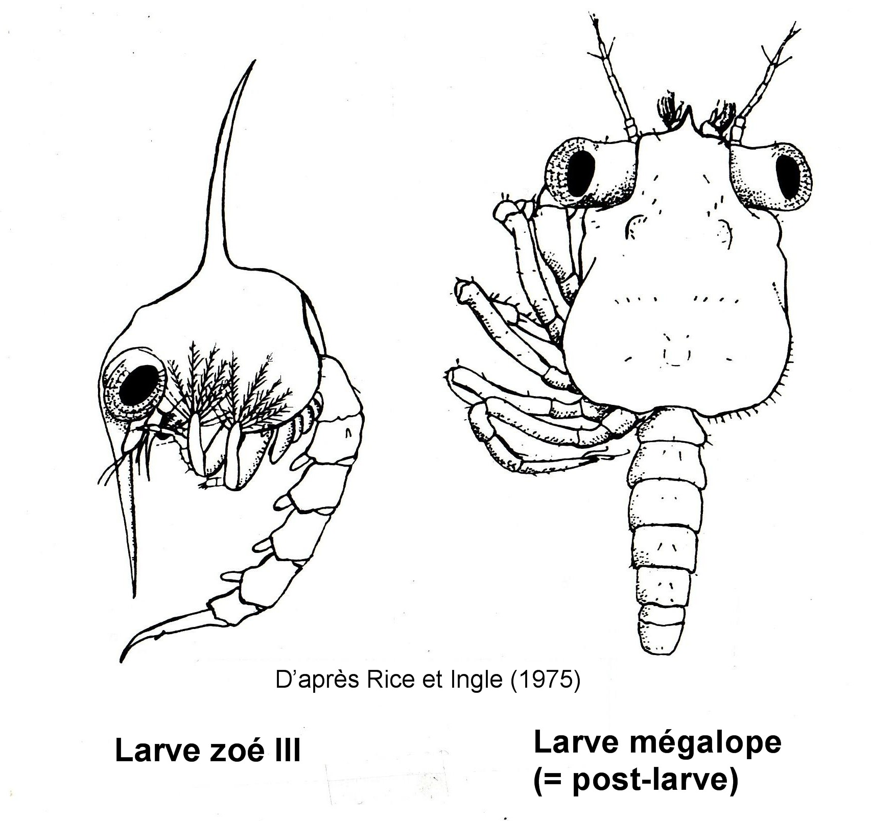 Third zoea and megalopa larvae of Carcinus maenas, after Rice &Ingle, 1975, modified